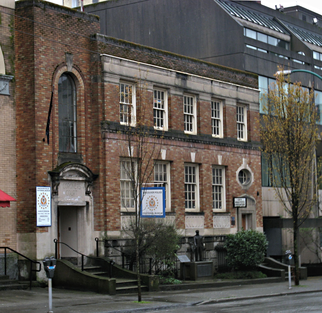 Coroner's Court/City Analyst/Vancouver Police Museum. Taken by me, April 2007.